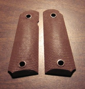 Image of synthetic (plastic) pistol grips, with molded surface simulating checkering.